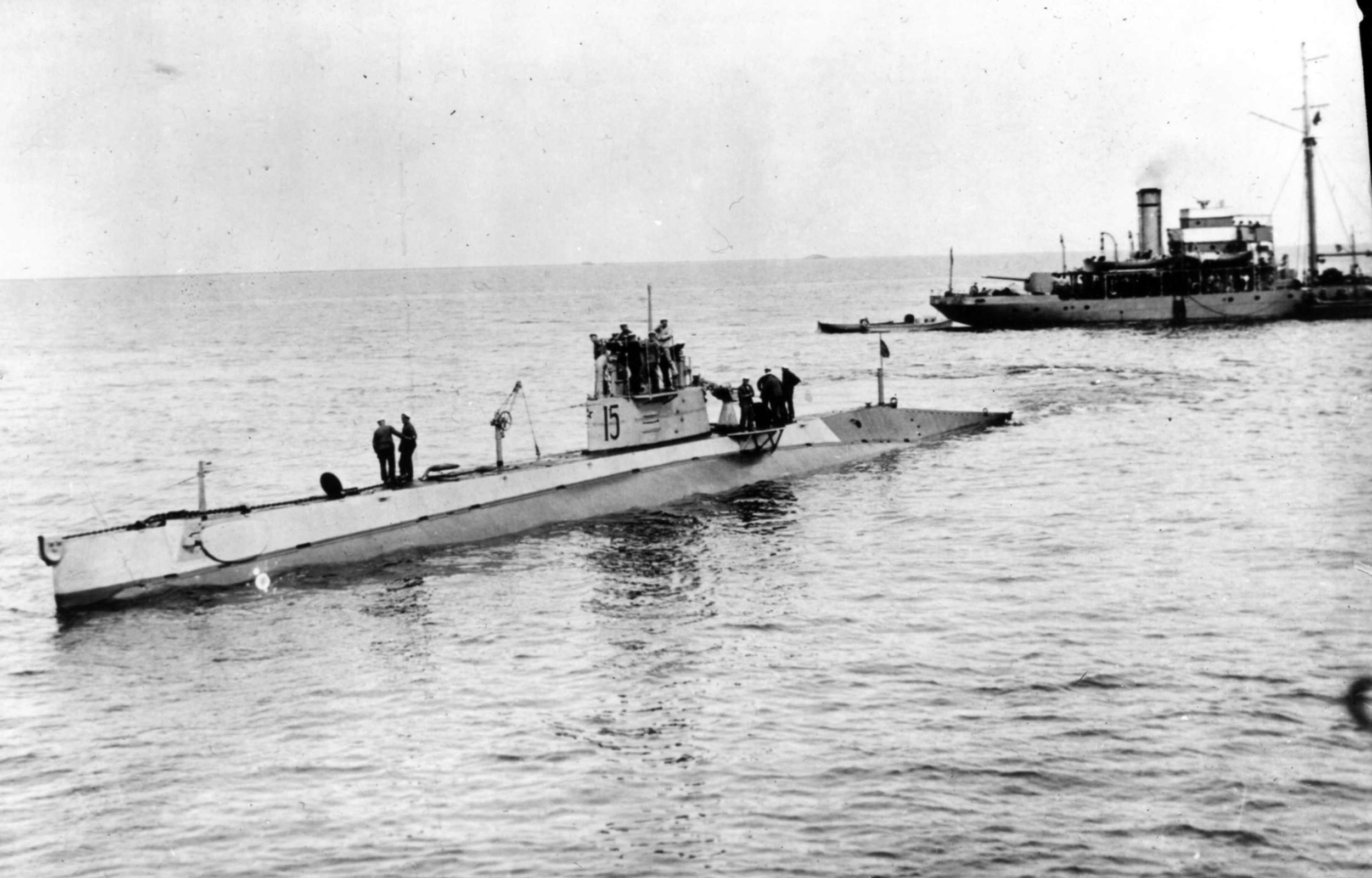 The Soviet submarine Politrabotnik and gunboat Krasnaya Gruziya.